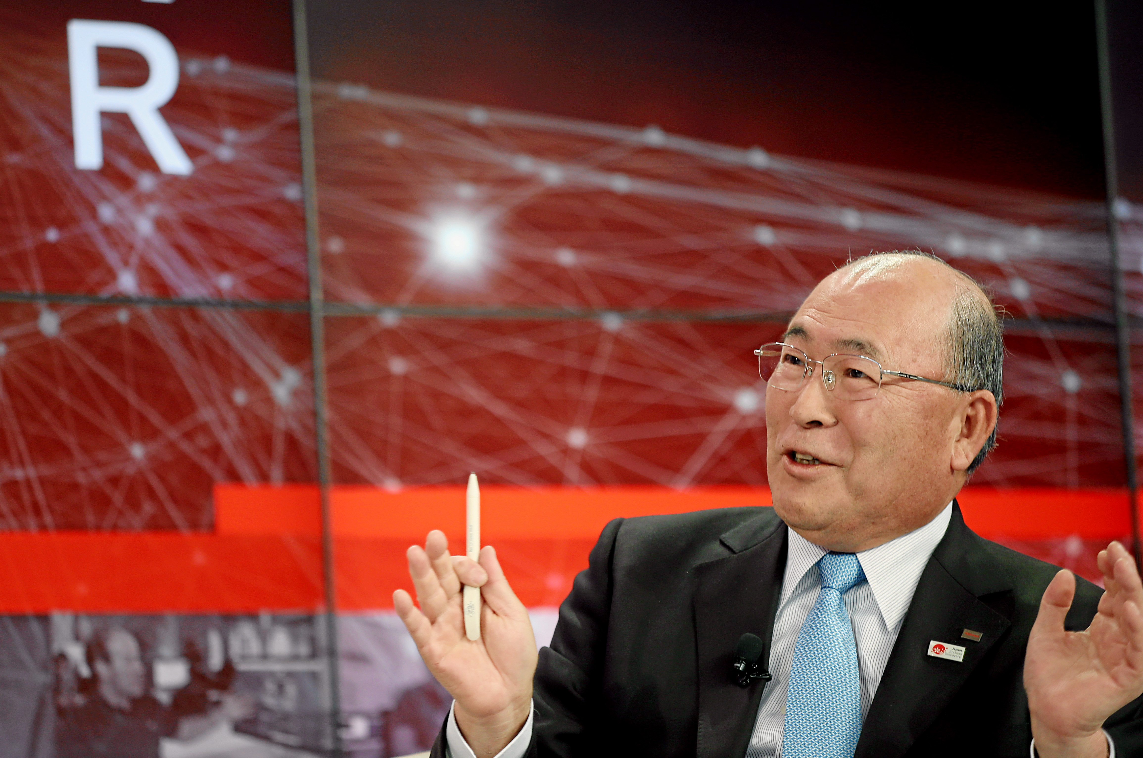 Atsutoshi Nishida, Chairman of the Toshiba Corporation, spoke about the "Citizen Power -- Leading Connected Societies" at the Annual Meeting of the World Economic Forum in Davos Municipality, Graubünden Canton on January 26, 2013.